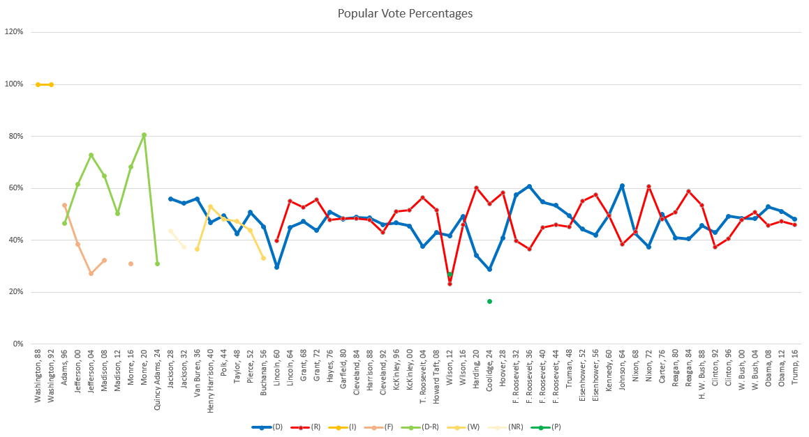 Popular Vote Percentages for all US Presidential Elections